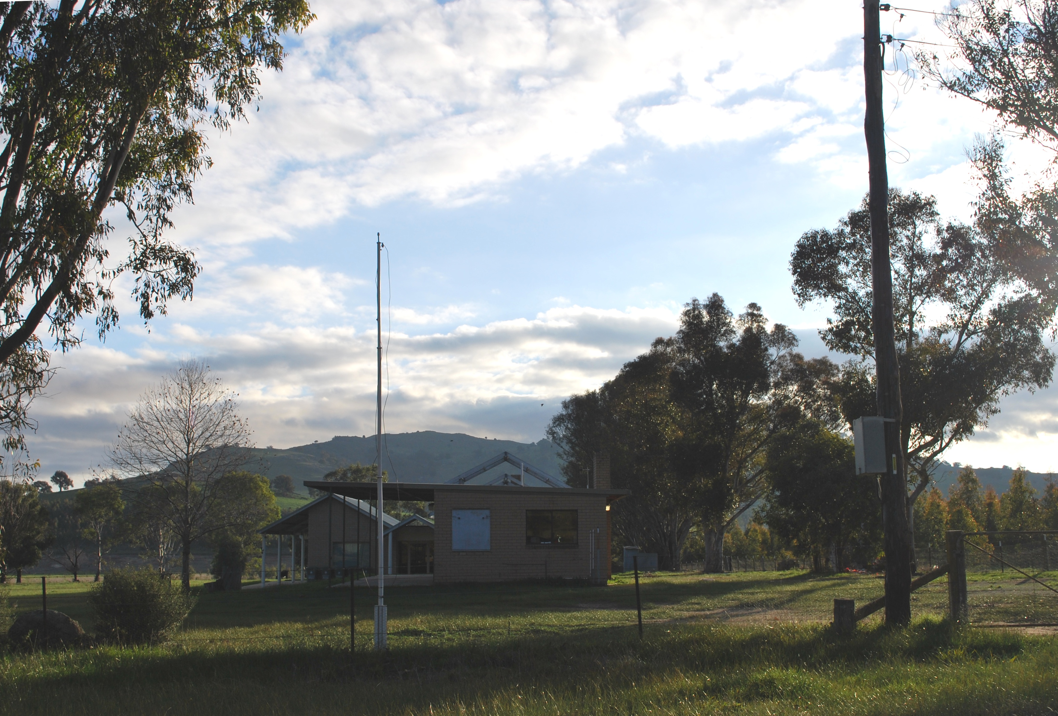 Recreation reserve at Wymah, New South Wales